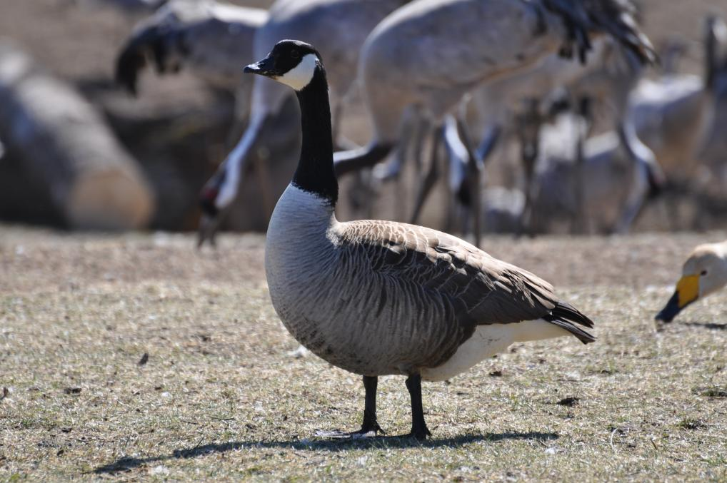 A canada goose at the southern outpost of lake hornborga.